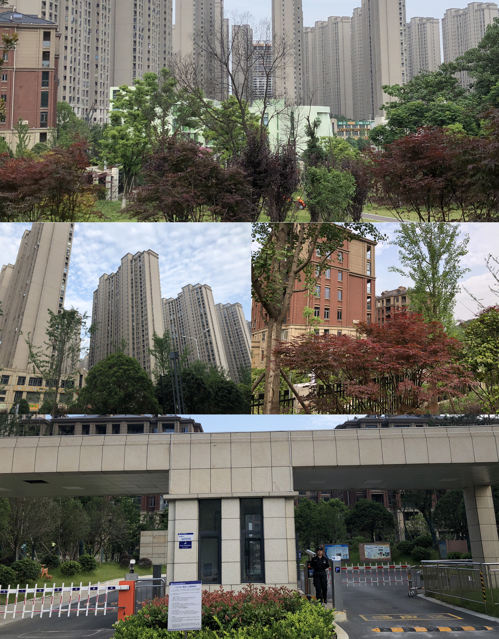 Second phase of project 2017, Bafang Residential Area, Changsha